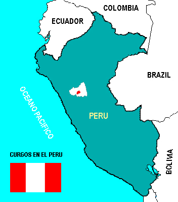 I, the author of this work, publish it under the following license (see below)